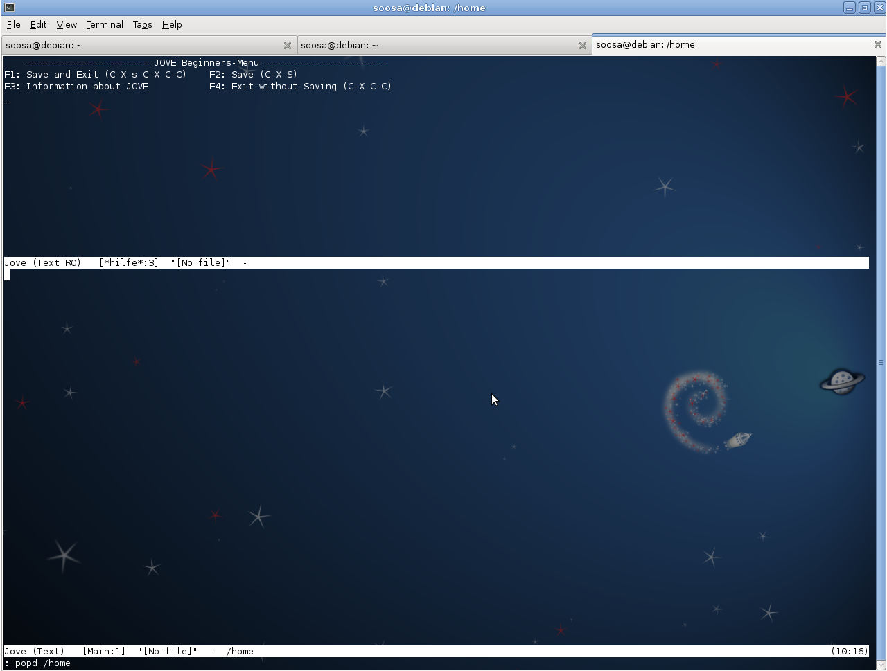 A screenshot of Jove (Jonathan's Own Version of Emacs) text editor